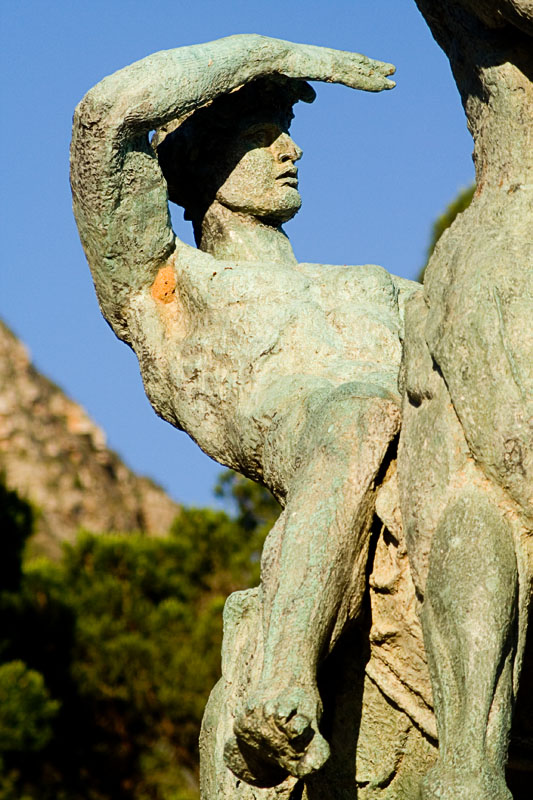 Detail of the statue Physical Energy by George Frederic Watts at Rhodes Memorial, Cape Town. This photograph was taken by me, Don Bayley, on 28 November 2005.